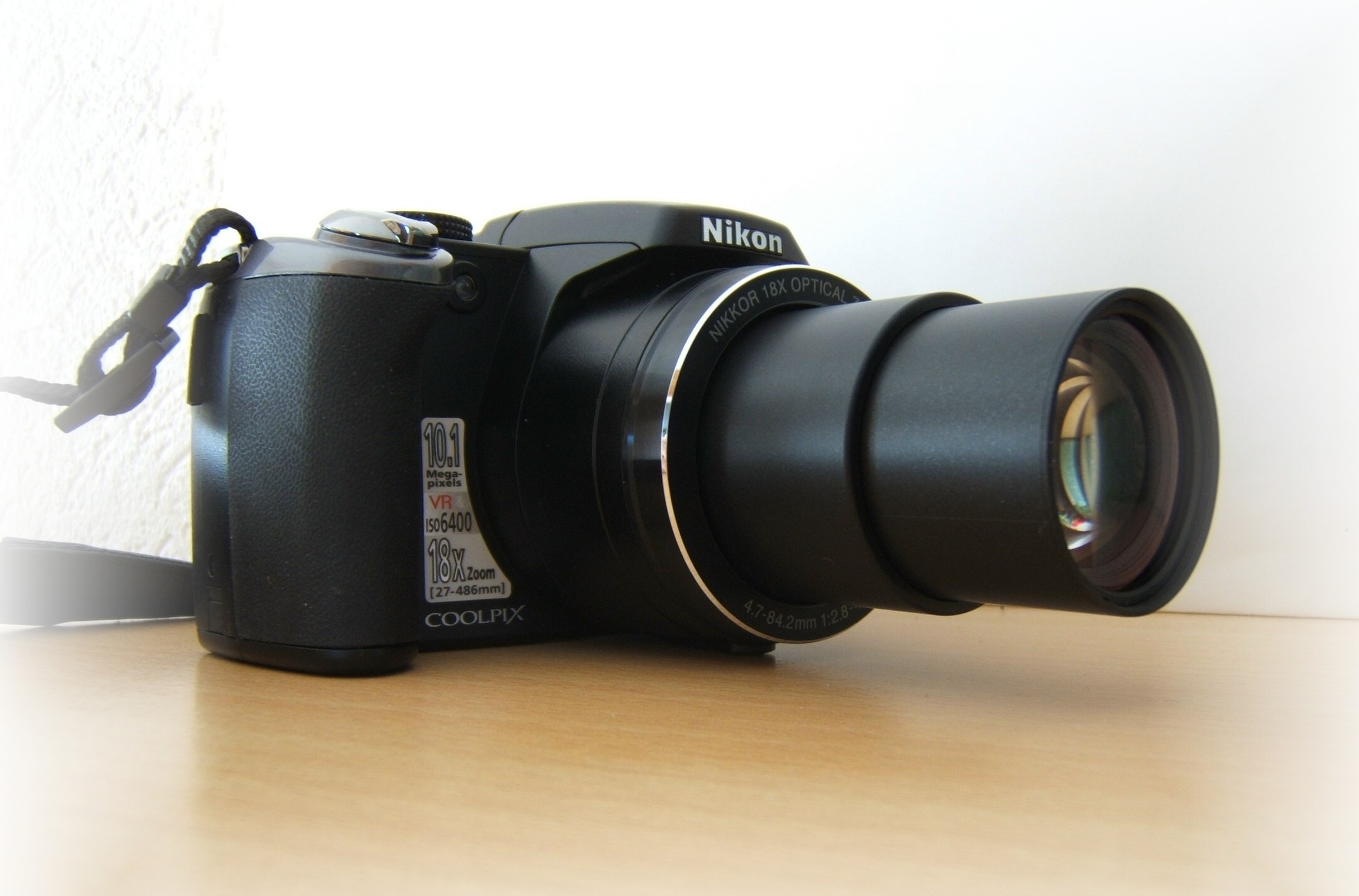 Nikon Coolpix P80, rightside, zoom open